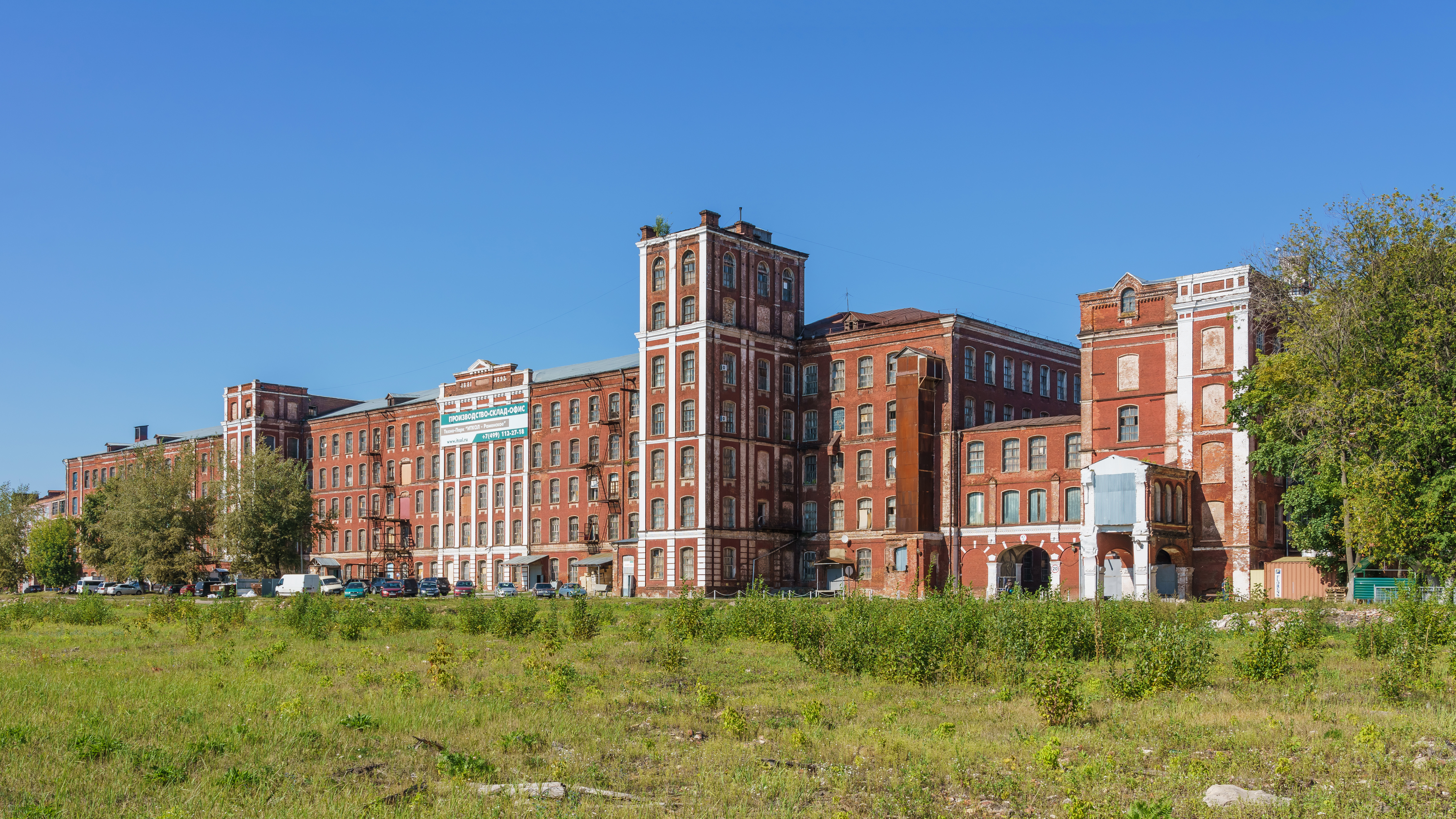 Former Malyutin Manufactory in Ramenskoe, Moscow Oblast, Russia